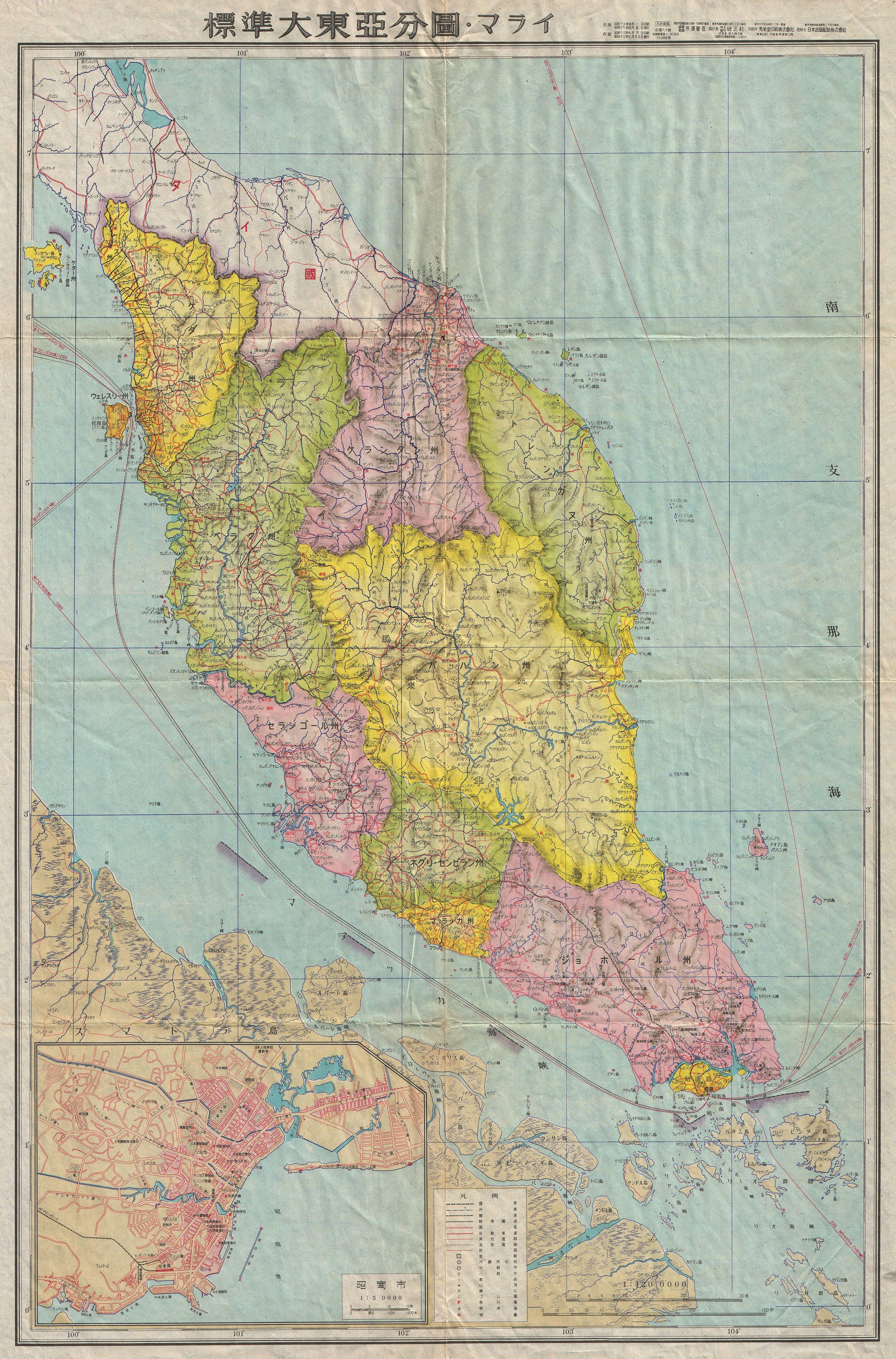 This is a rare Japanese map of the Malay Peninsula and Singapore issued during World War II. Depicts the peninsula in considerable detail noting both physical and political elements. Includes air and sea routes around the peninsula and to China and Japan. All text in Japanese.